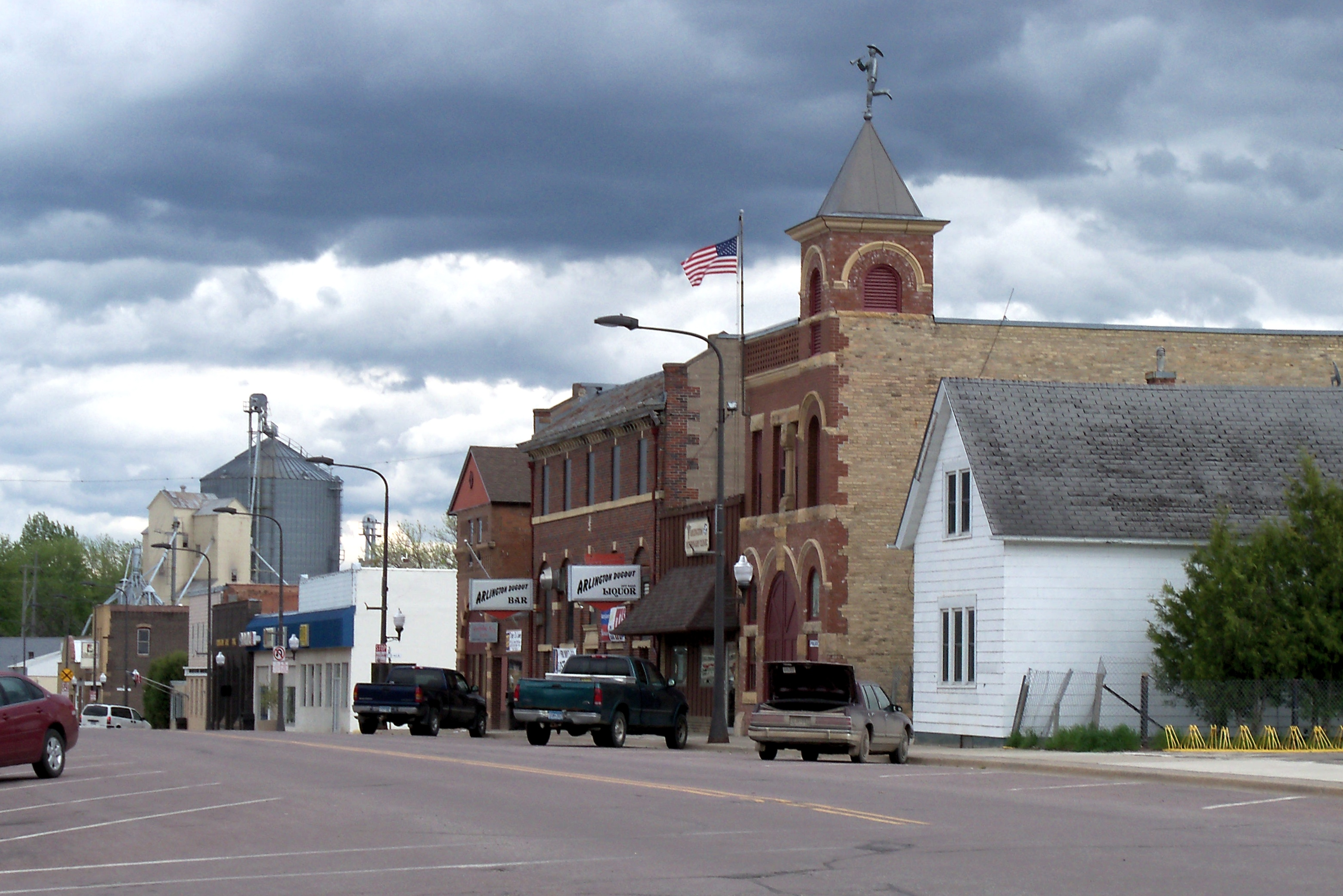 Downtown Alrlington, Minnesota, USA.